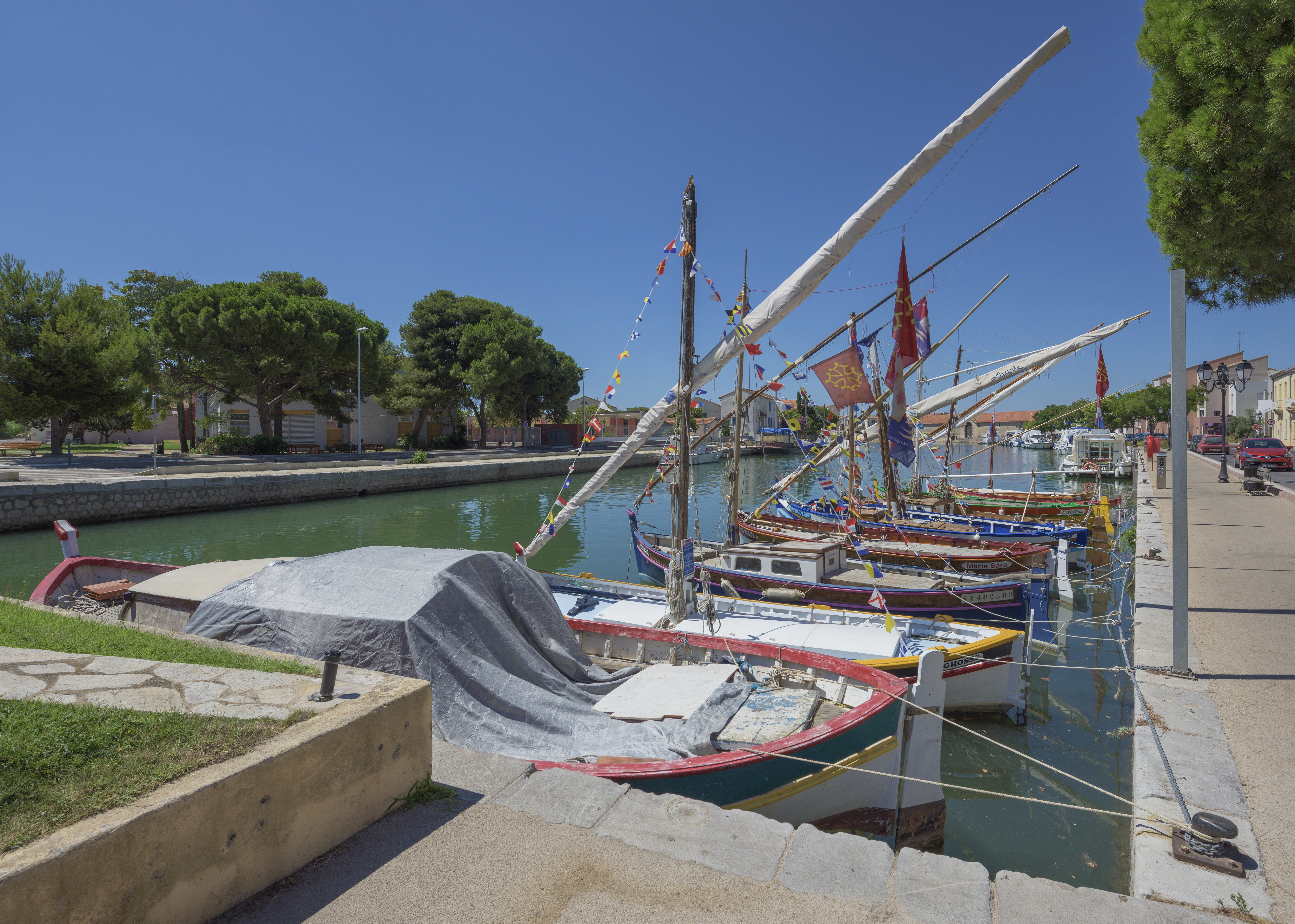 Boats in the Canal du Rhône à Sète moored along the Voltaire Embankment. Frontignan, Hérault, France.